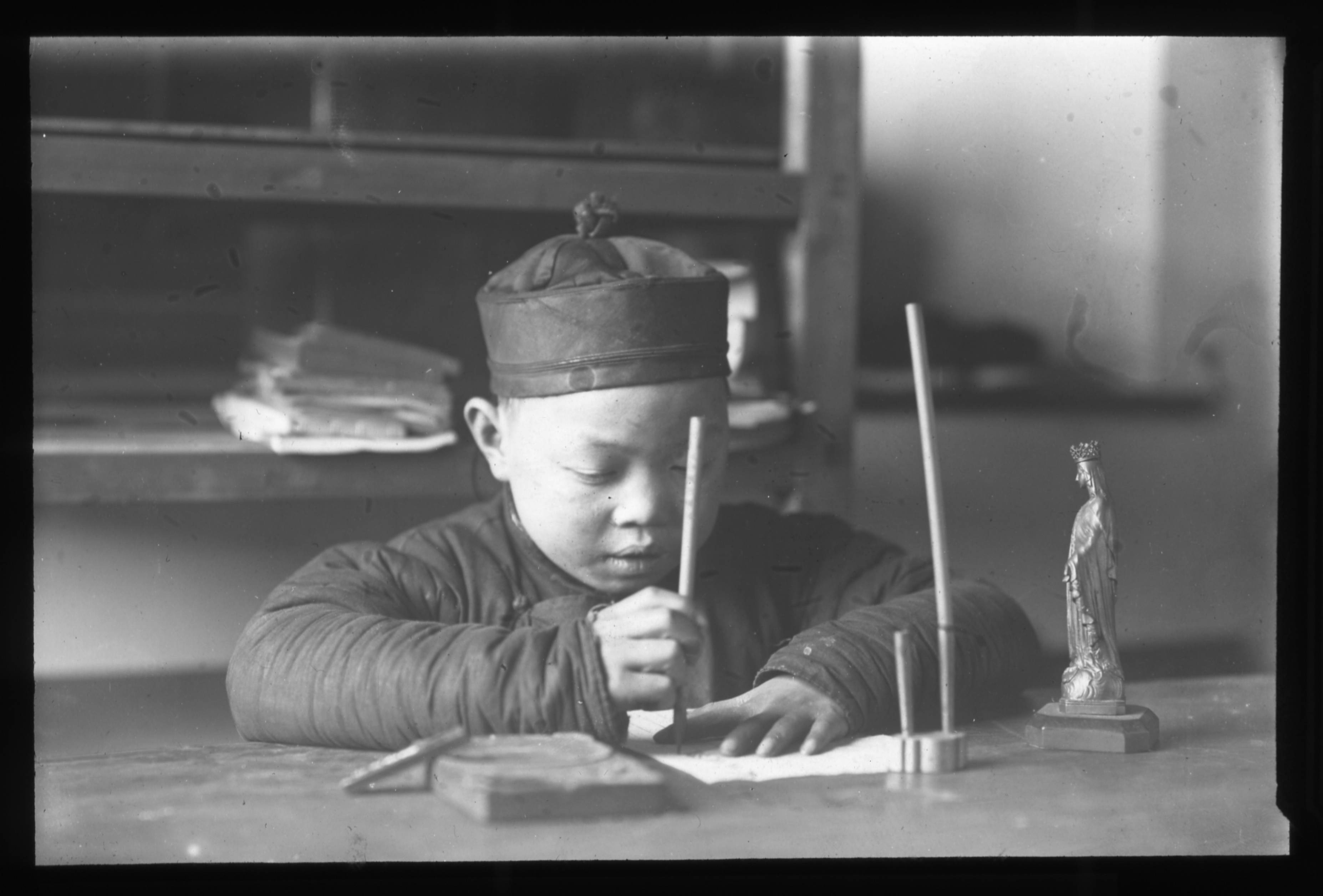 Boy seated at a table writing, China, ca. 1918-1938 Black and white lantern slide of a boy seated at a table writing. He holds a writing brush in his right hand and a piece of paper under his left hand. Also on the table are a book and a religious statue. Stacked on the cabinet behind him are additional papers and books. Photographer: Unknown Subject (keyword): boys; writing; general views Filename: MFB-LS0248B Coverage date: 1918/1938 Subject (unesco): boys; writing Part of collection: International Mission Photography Archive, ca.1860-ca.1960 Type: images Part of subcollection: Photographs of the Catholic Foreign Mission Society of America, Maryknoll, New York, 1912-1945 Part of repository: Maryknoll Mission Archives Repository name: Maryknoll Mission Archives Archival file: impa_Volume32/MFB-LS0248B.tiff Repository address: Maryknoll Mission Archives, PO Box 305, Maryknoll, N.Y. 10545-0305 Geographic subject (country): China Geographic subject (continent): Asia Rights: Repository Date created: 1918/1938 Publisher (of the digital version): University of Southern California. Libraries Format (aat): lantern slides Legacy record ID: impa-m60395 Access conditions: File: MFB/LanternSlides/LS0248B